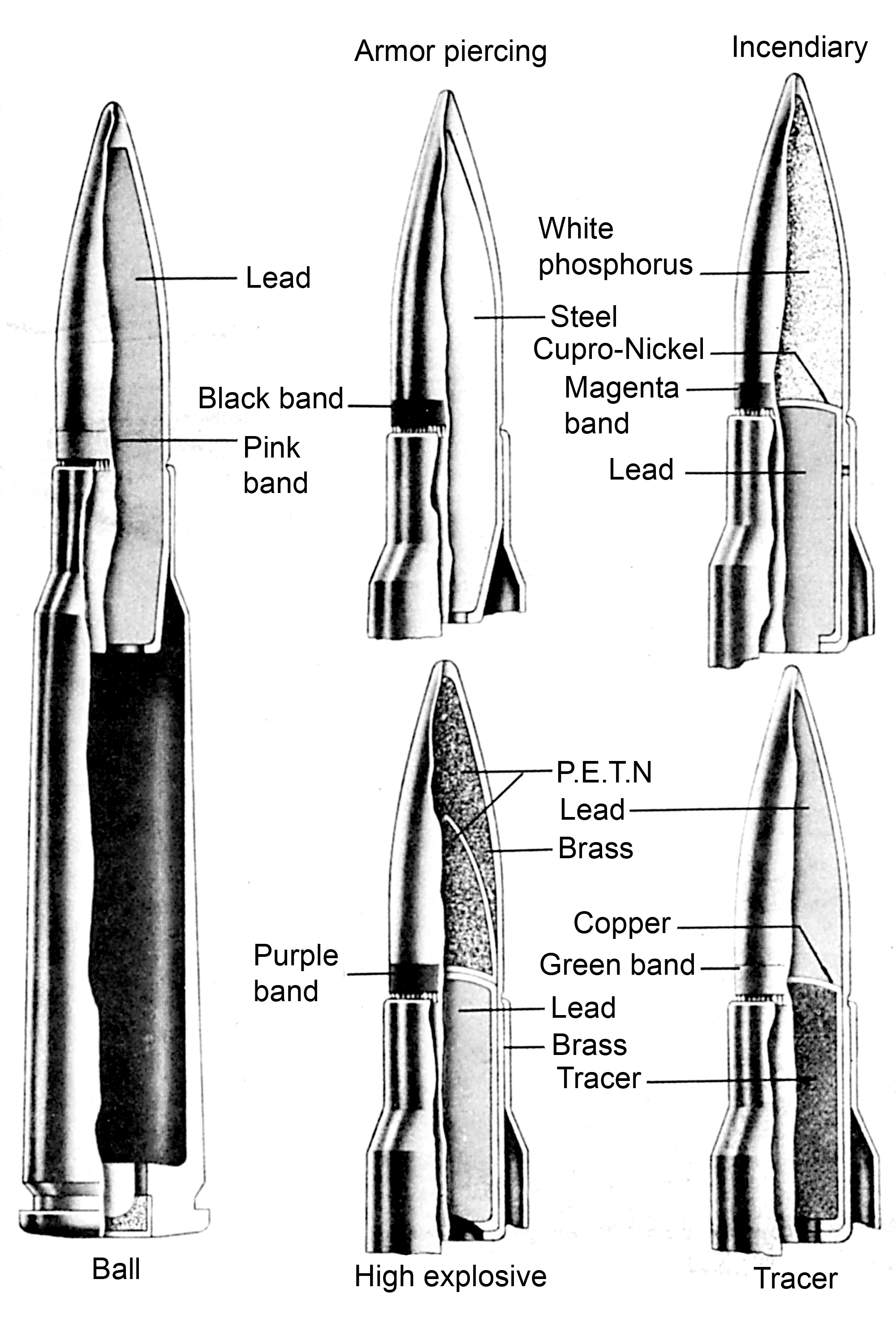 A cutaway showing a Japanese Type 92 7.7 mm semi-rimed round as fired by the Type 89 machine gun and Type 92 heavy machine gun.